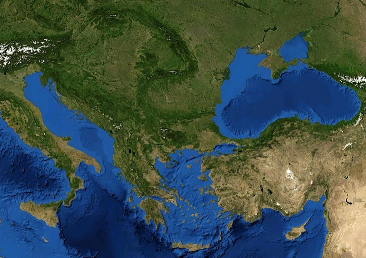 Satellite image of the Balkans.